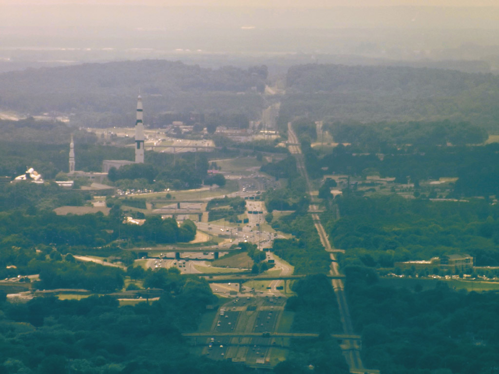 Interstate 565 passing through the city of Huntsville, Alabama Photography by Larry Wilbourn 07 Jun 2012.